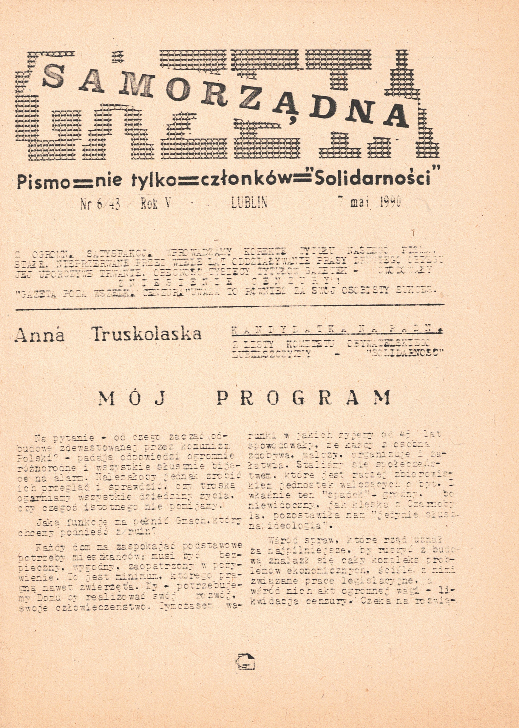 The first page of the last issue of Gazeta poza wszelką cenzurą